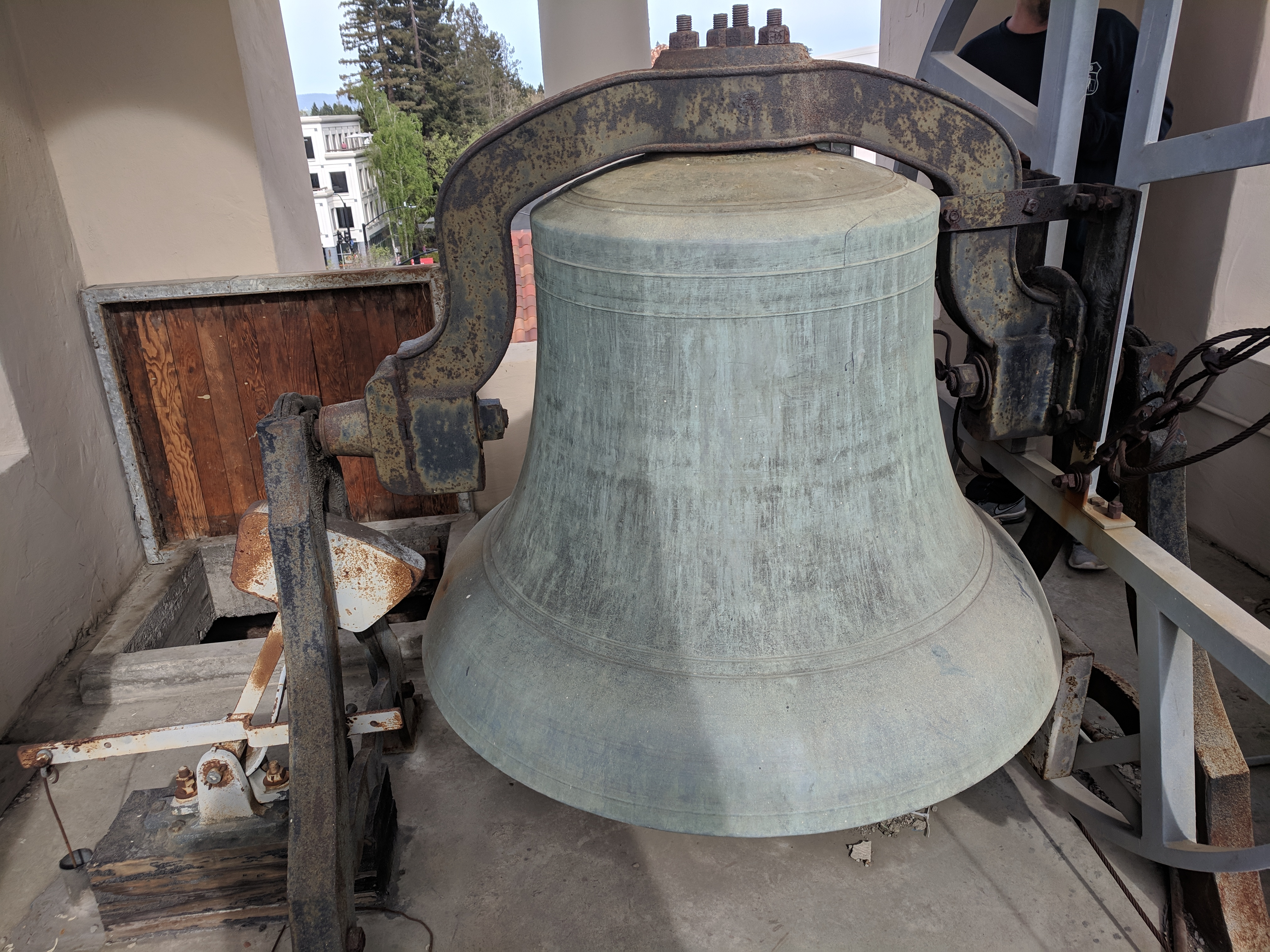 The 42" 1,320 lbs. tower bell of Saint Joseph Roman Catholic Church in Mountain View, California